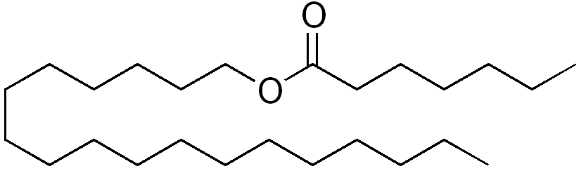 chemical structure of stearyl heptanoate